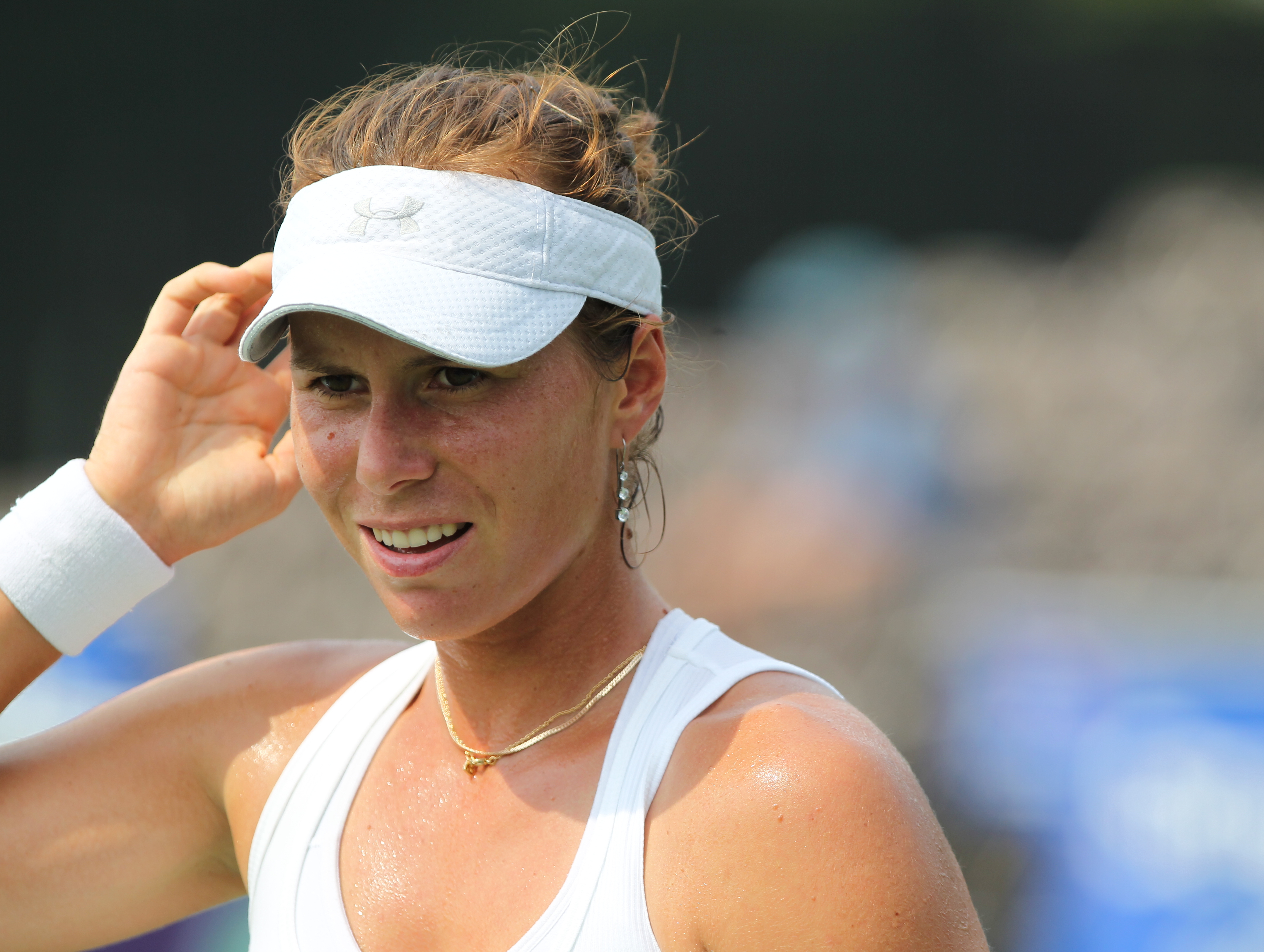 Varvara Lepchenko at the Citi Open Tennis July 28, 2011